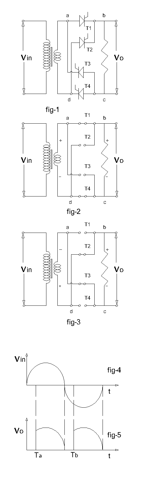 full wave rectifier(controlled)